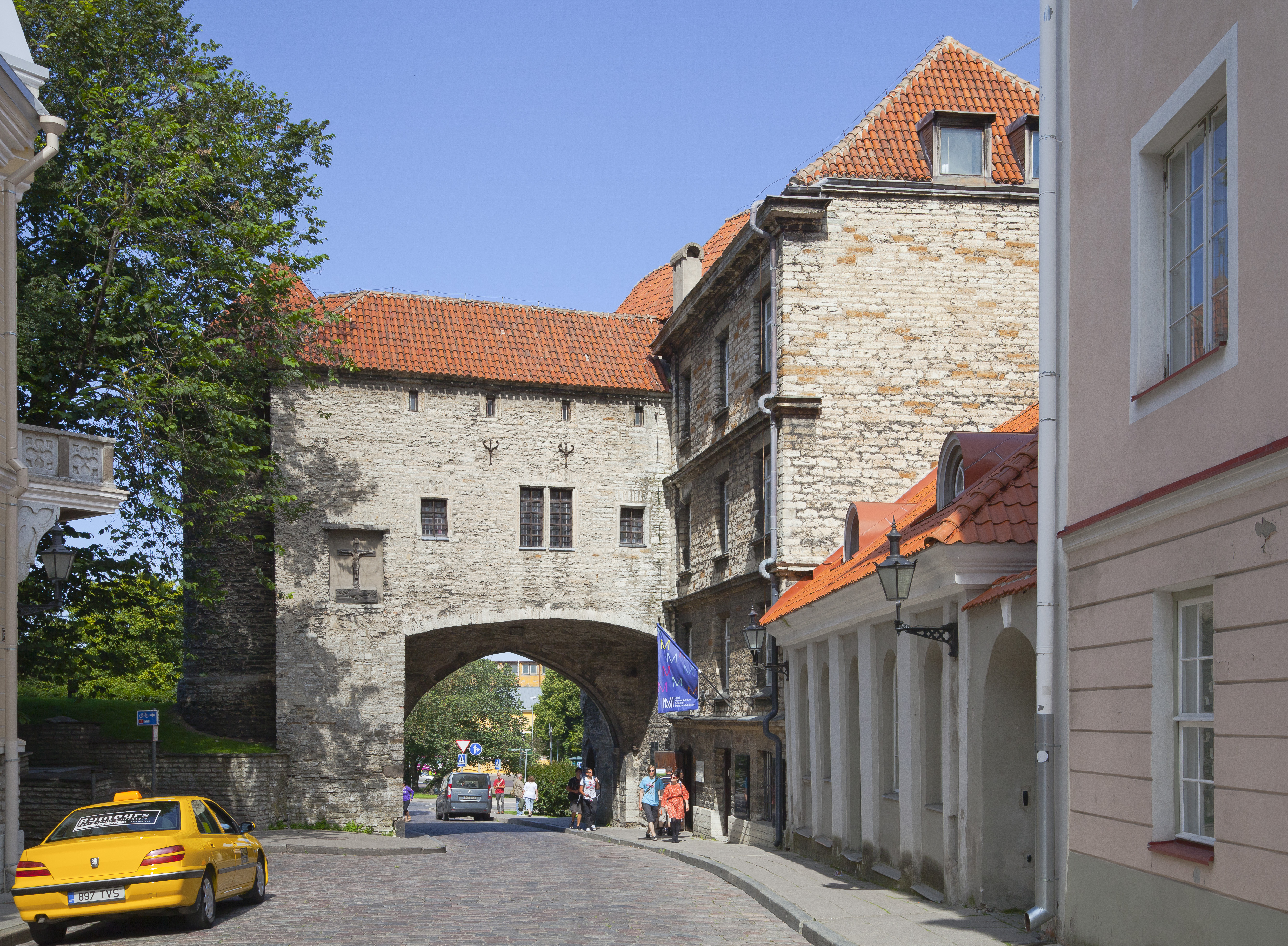 Great Coastal Gate, Tallinn, Estonia